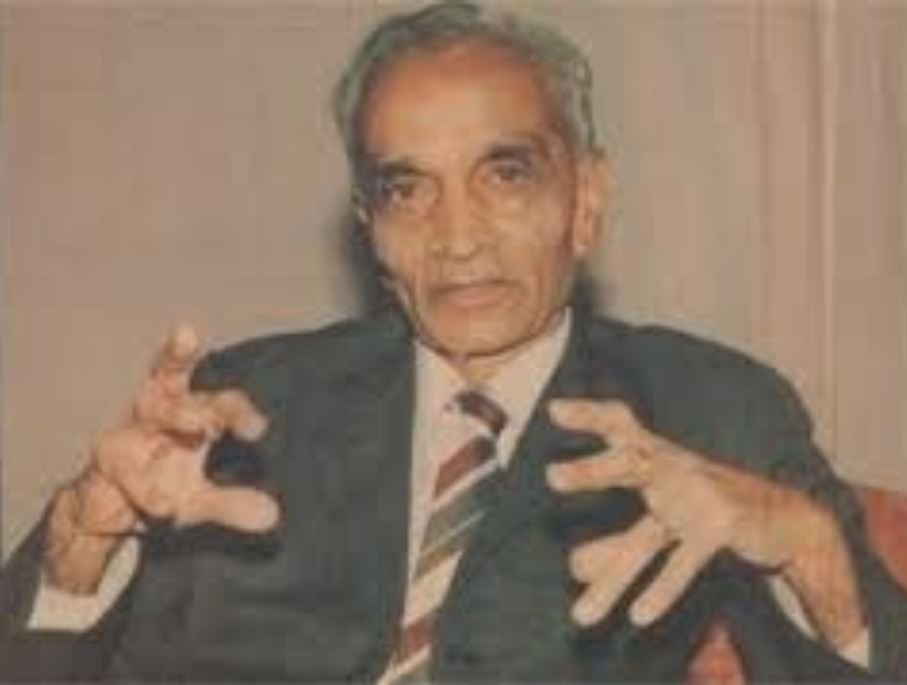 This image represents the famous Hindutva historian PN Oak, from India, during an interview. He is a famous historical revisionist.